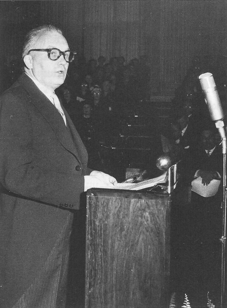 Finland's prime minister V.J. Sukselainen delivers the principal speech at the 150th anniversary of the government in the ceremonial hall of the University of Helsinki, October 2, 1959.